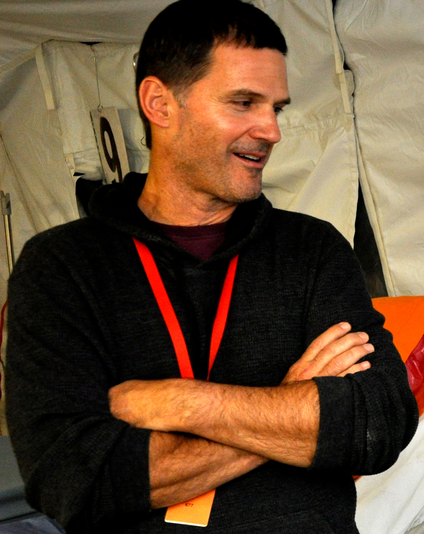 KANDAHAR AIRFIELD, Afghanistan - Celebrity D.W. Moffett visits with a wounded British troop Oct. 13 at the Role III coalition hospital here. Moffett visited troops at multiple locations across Afghanistan for more than a week as part of a United Service Organizations Ambassadors of Hollywood tour.